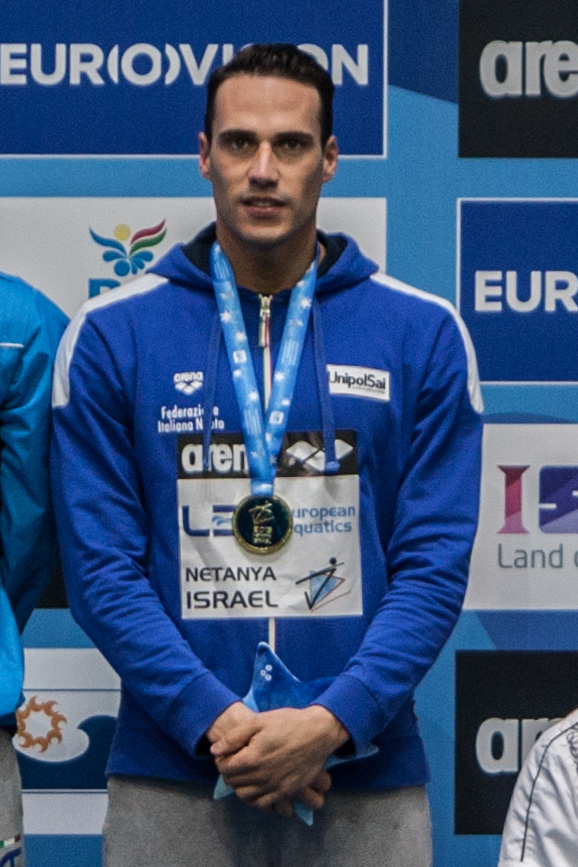 Swimmer Fabio Scozzoli wearing the gold medal he won at the 2015 European Short Course Swimming Championships in Netanya